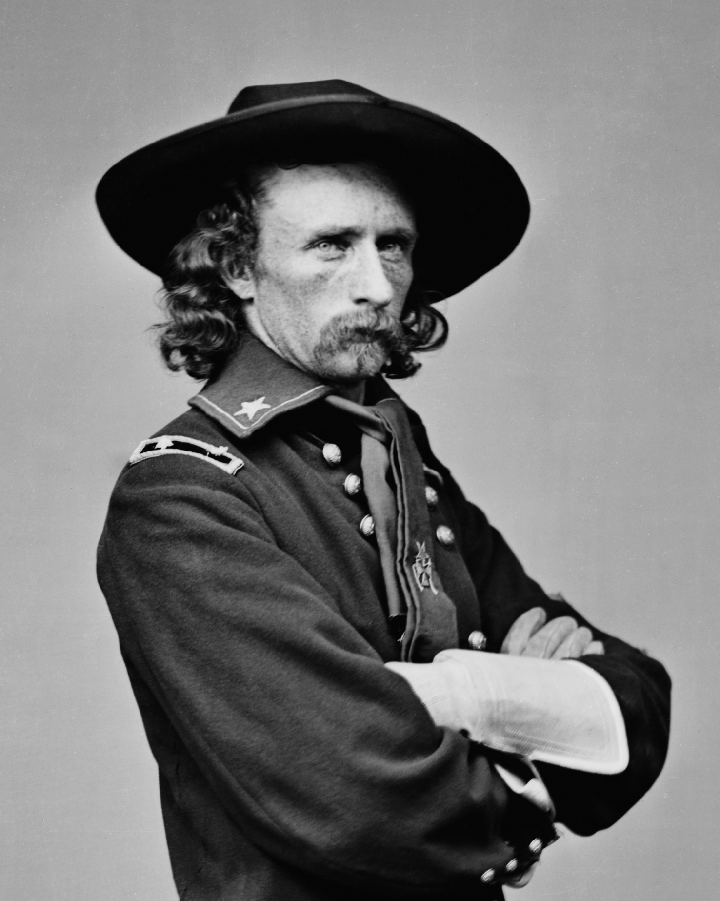 Brevet Major General George Armstrong Custer in field uniform.